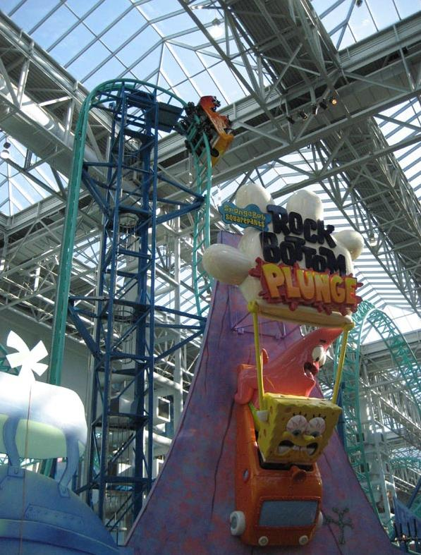 The SpongeBob SquarePants Rock Bottom Plunge at the Mall of America in Bloomington, MN.